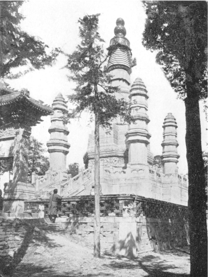 Beijing Yellow Temple